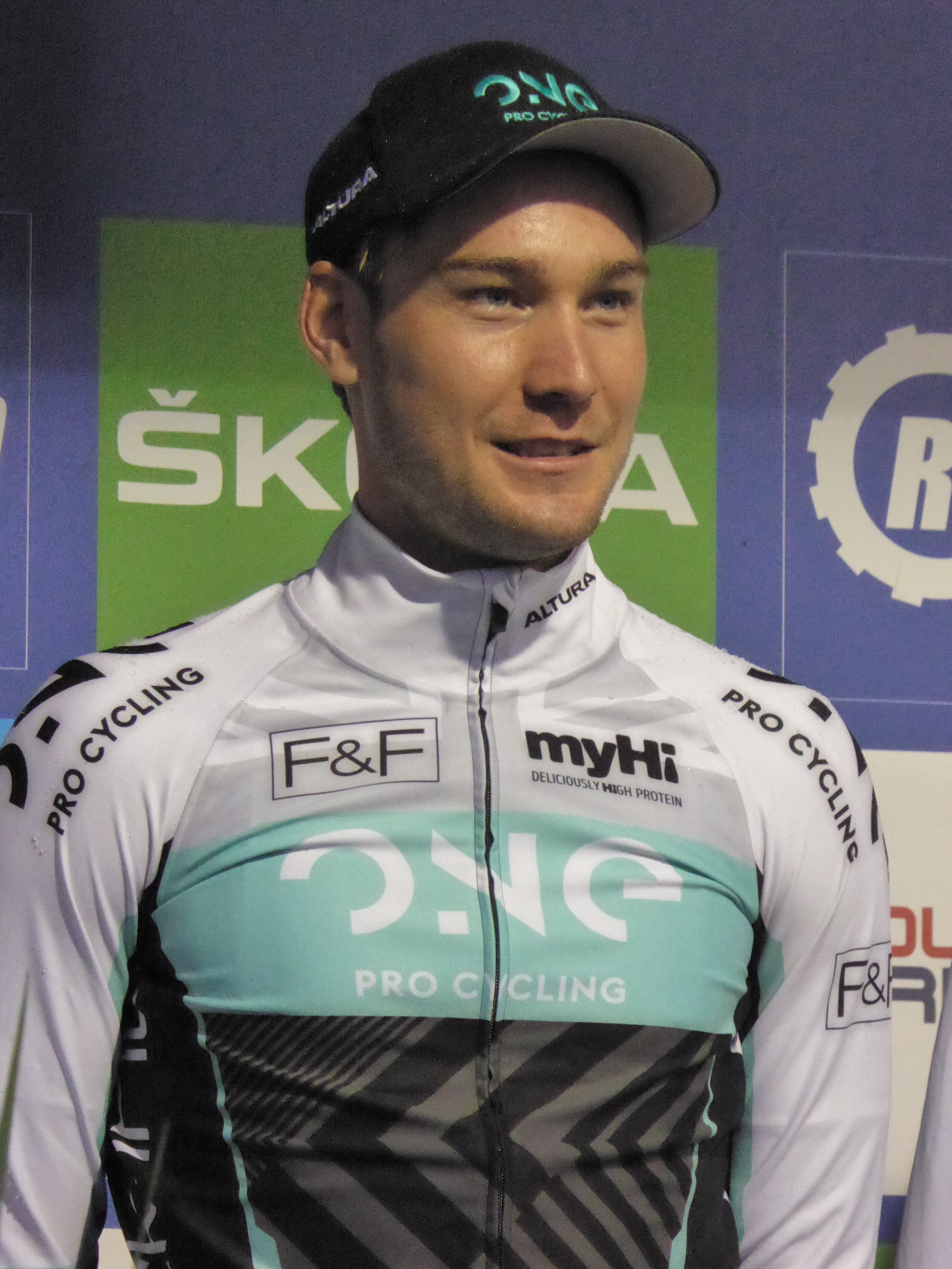 Hayden McCormick (ONE Pro Cycling), pictured at the 2016 Tour of Britain team presentation in Glasgow on 3 September 2016.